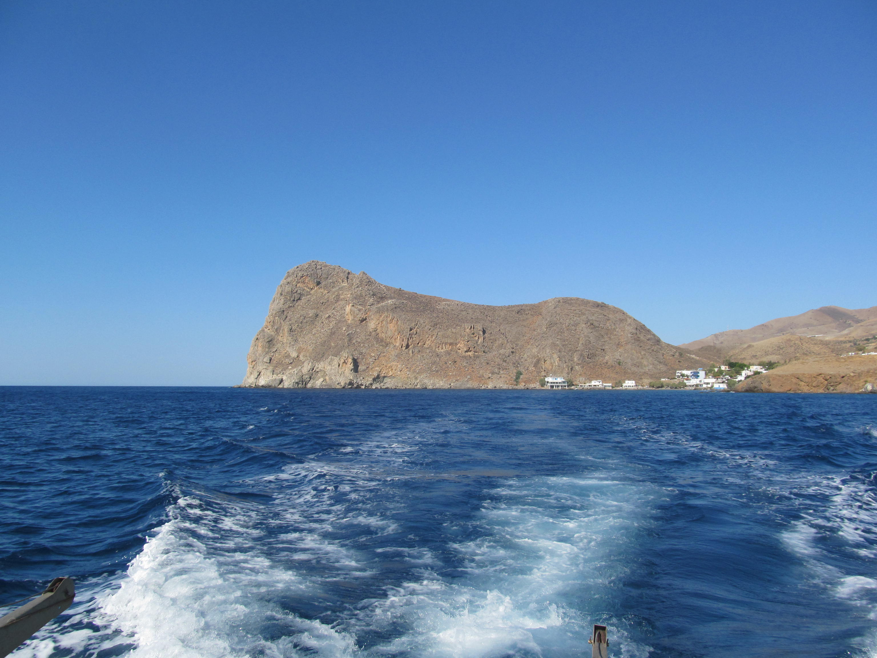 Promontory Leontas in Lentas